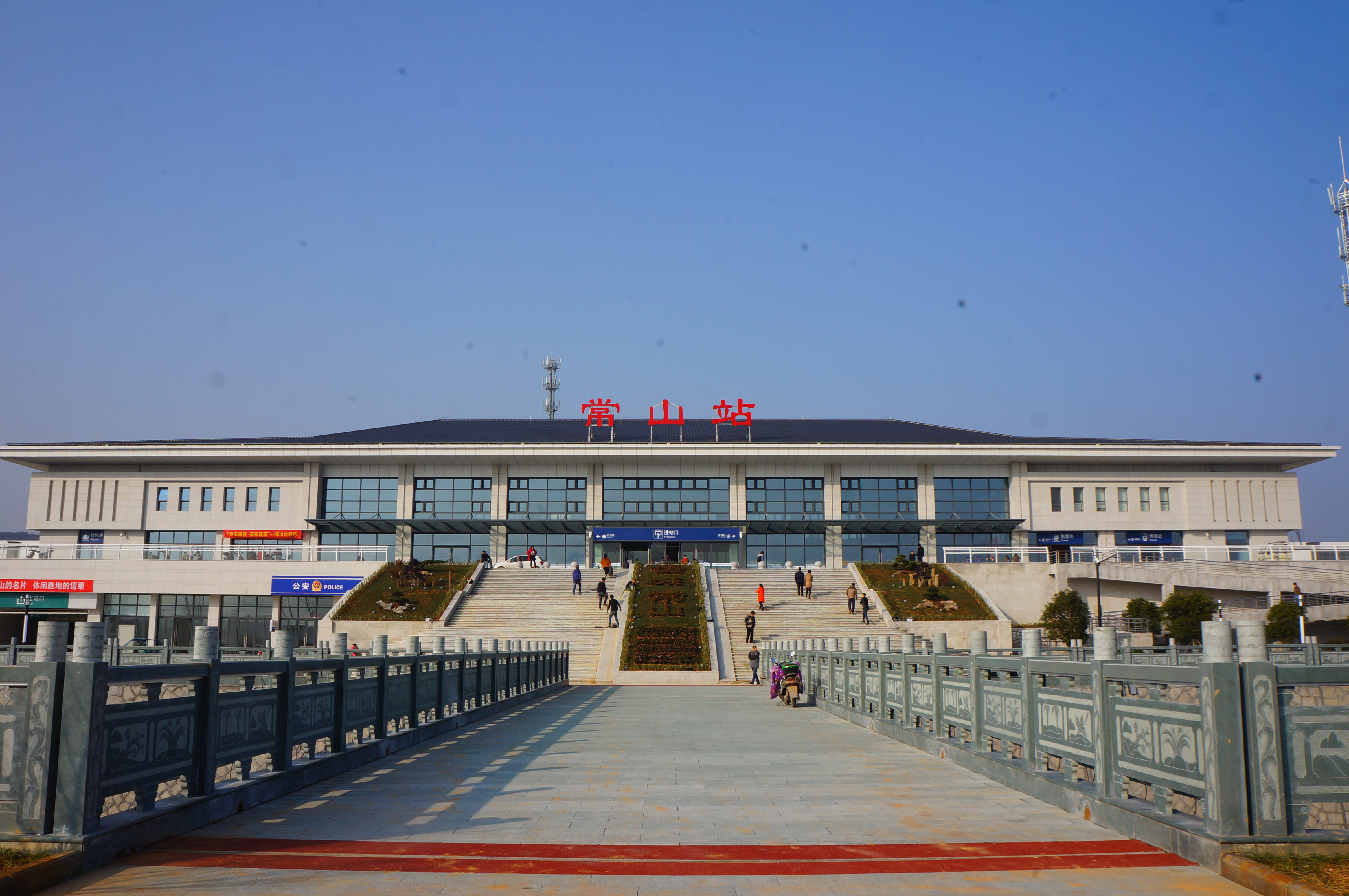 201712 Changshan Station